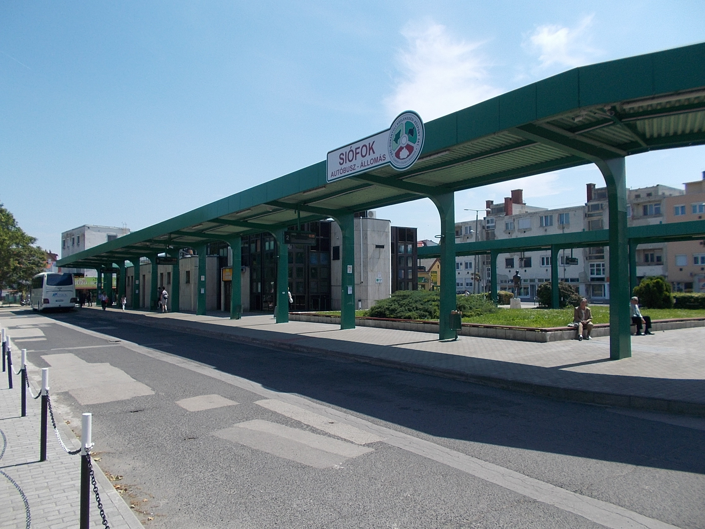 Siófok Bus Station. - Fő utca, Downtown, Siófok, Somogy County, Hungary.